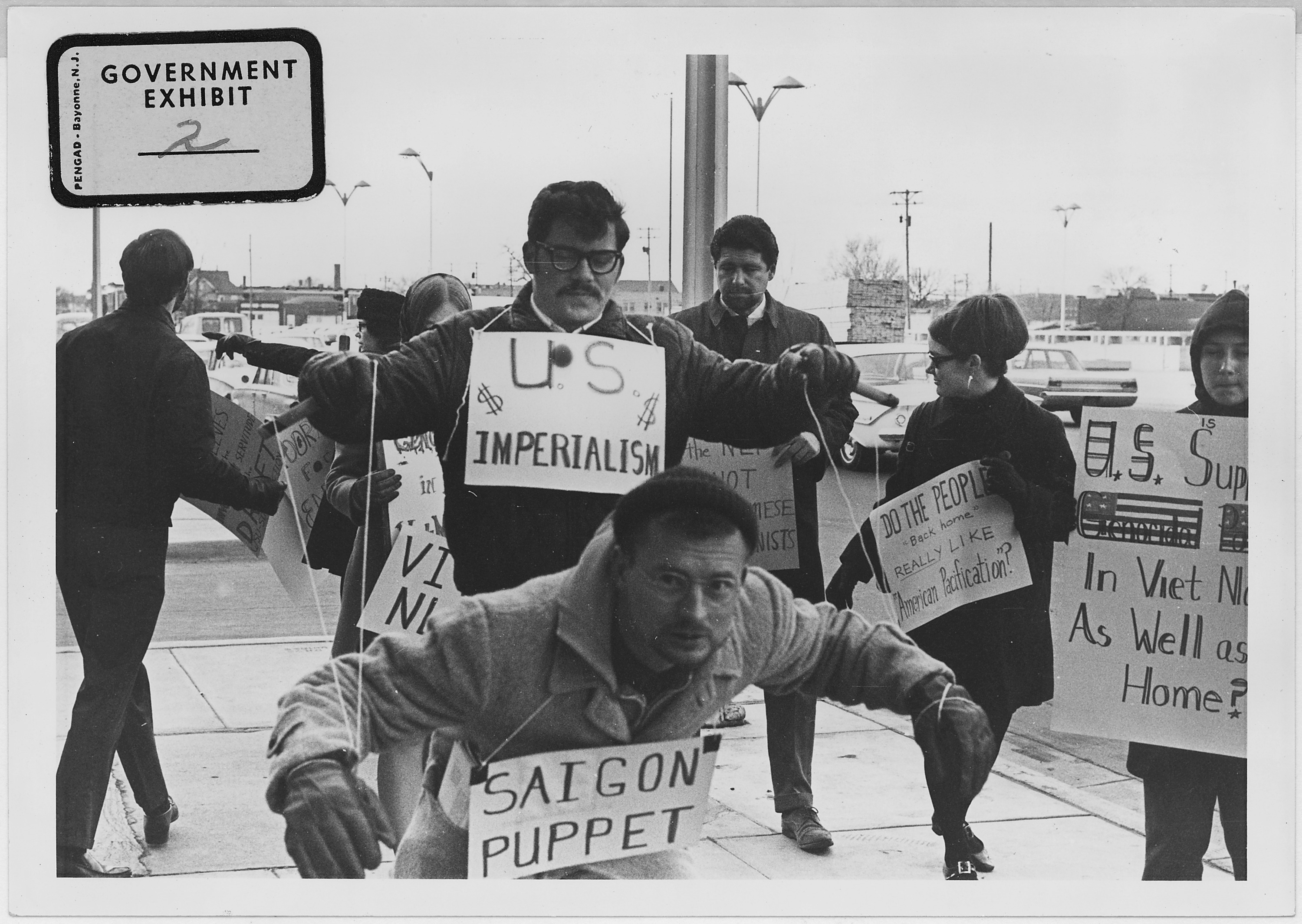 Scope and content: Protesters carry signs and act out "Saigon Puppet" demonstration in front of Wichita City Building.